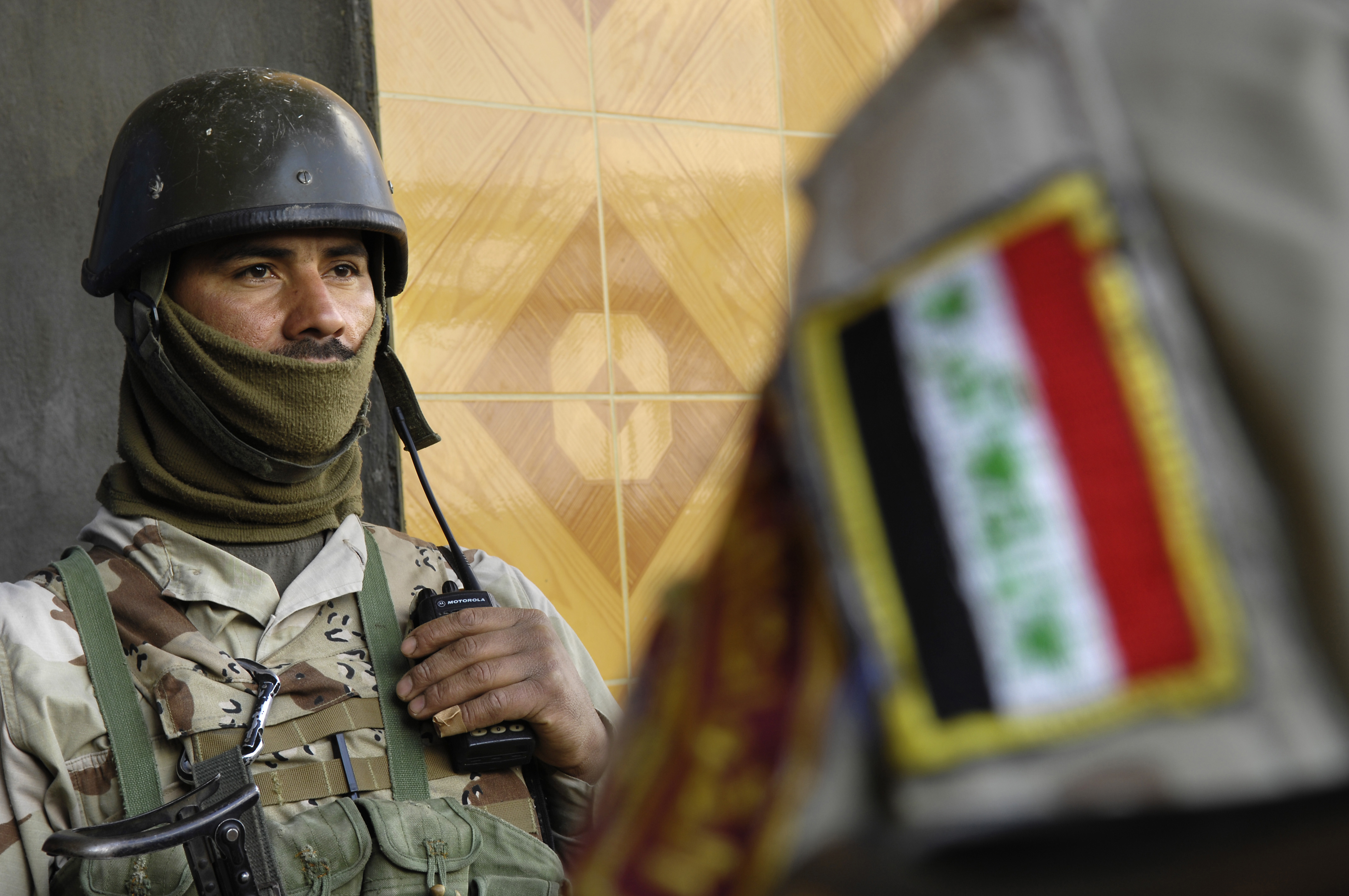 Iraqi army soldiers from 4th Battalion, 2nd Brigade, 5th Division stand outside an Iraqi army compound in Buhriz, Iraq.